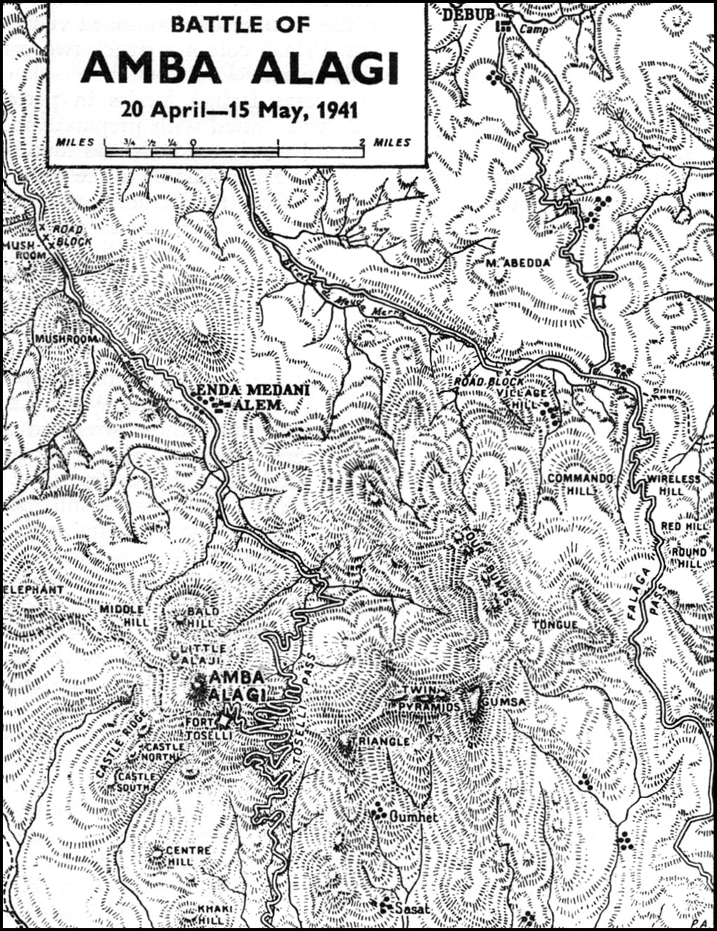 Map of the Second Battle of Amba Alagi, 20 April-15 May 1941